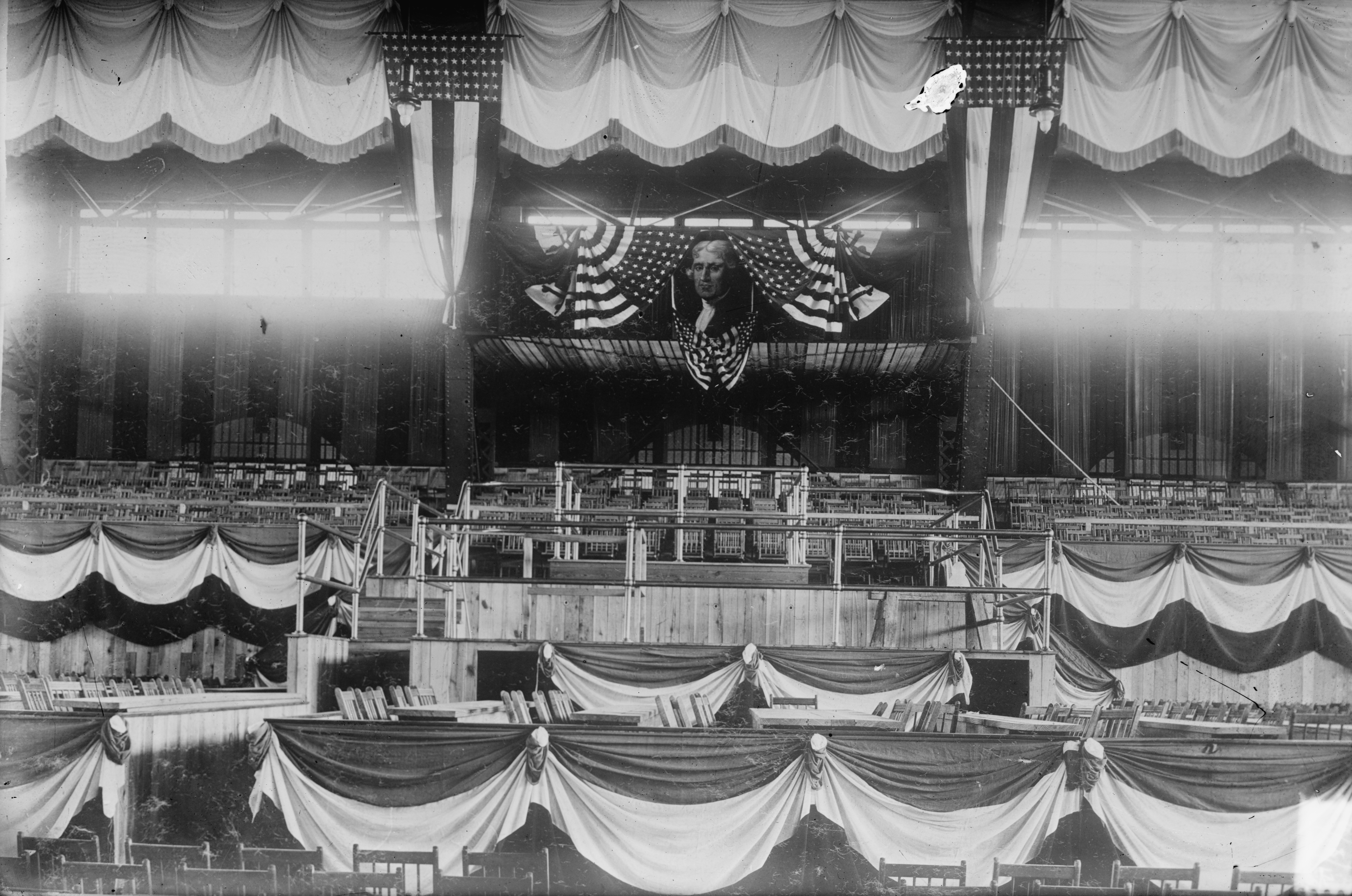 Photo taken at the 1912 Democratic National Convention held at the Fifth Regiment Armory, Baltimore, Maryland, June 25-July 2.